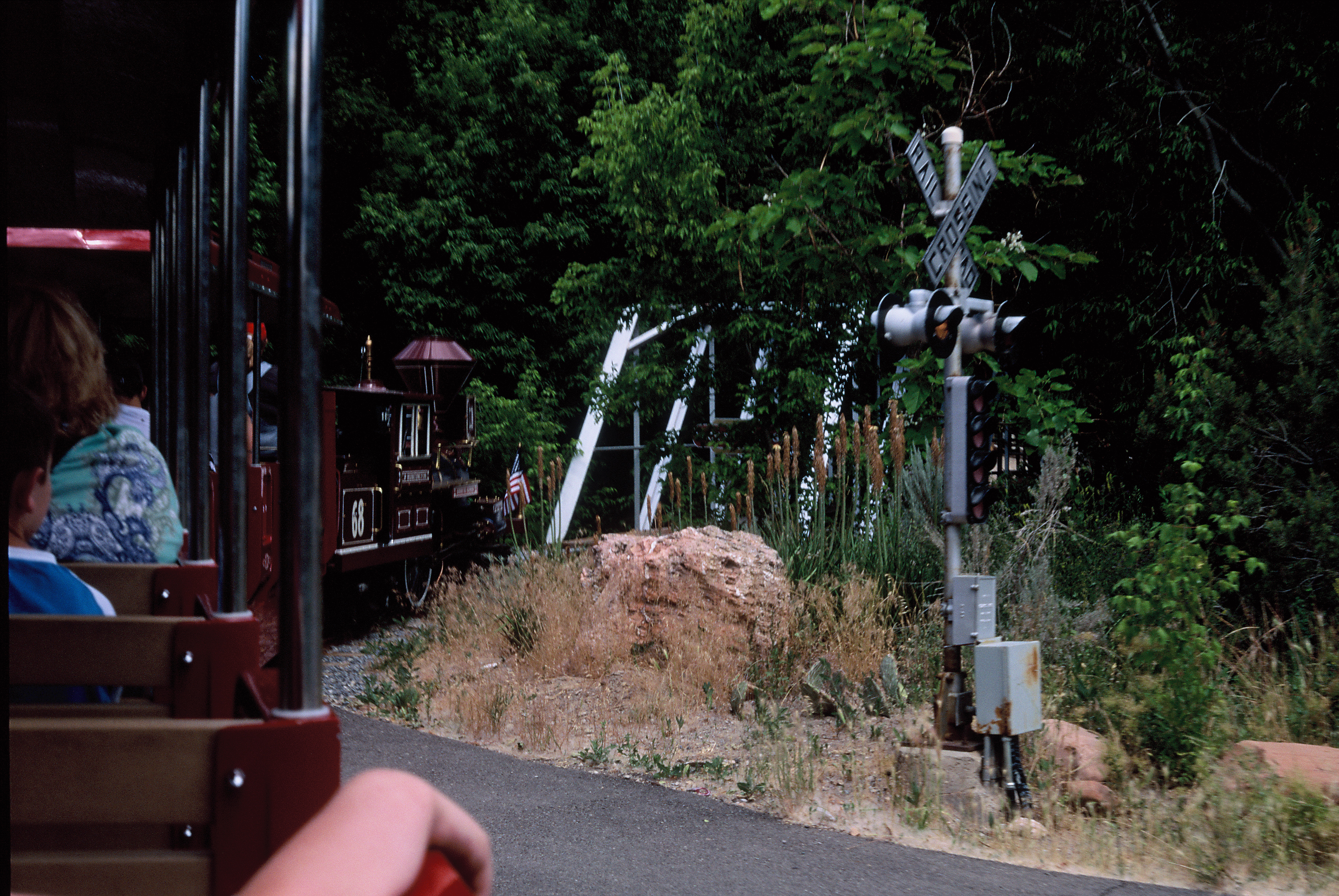 Ridding on the Hogle Zoo train